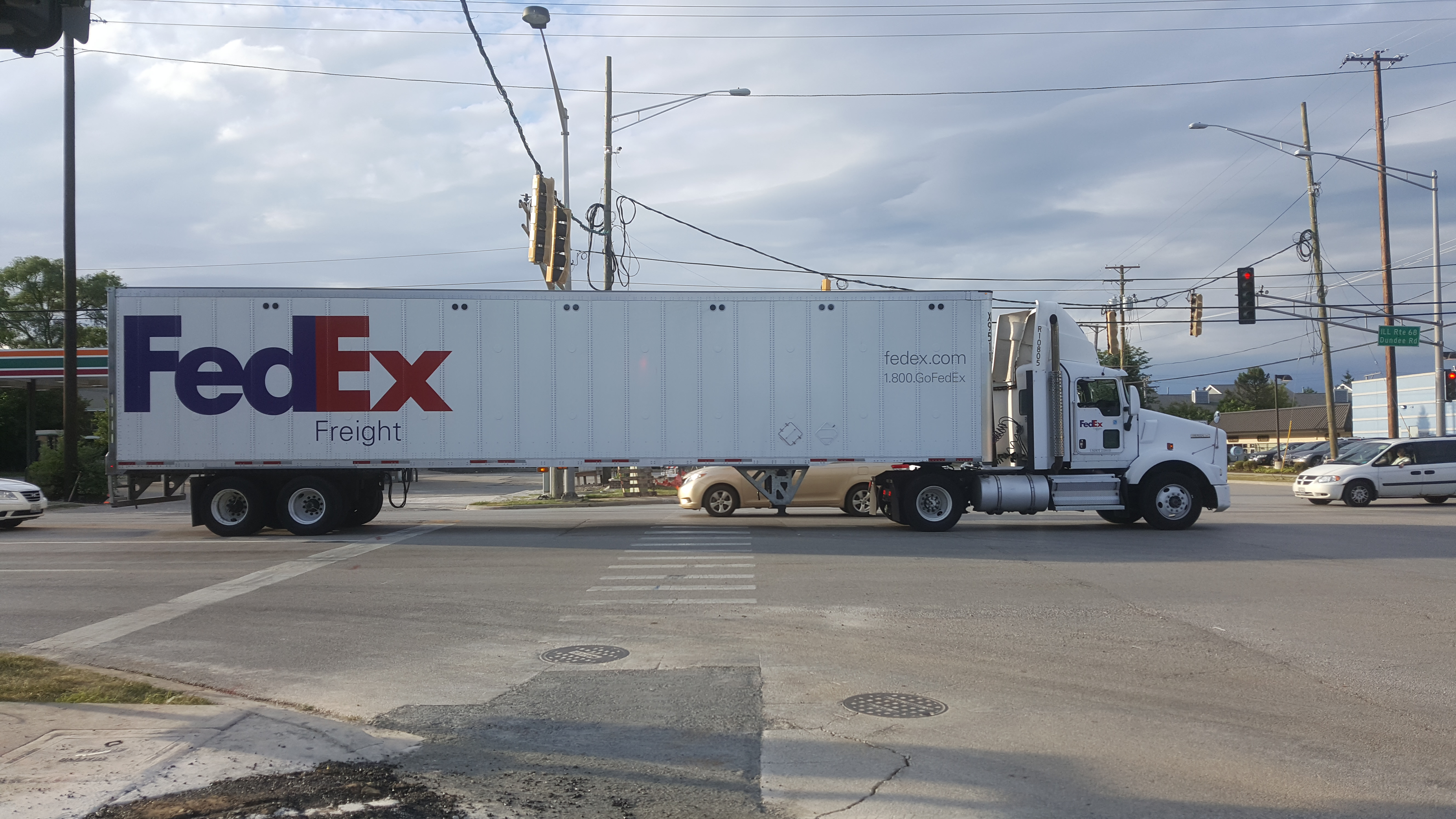 Fedex Freight truck in Northbrook,Il.